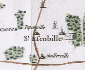 Cassini Map of Saint-Escobille